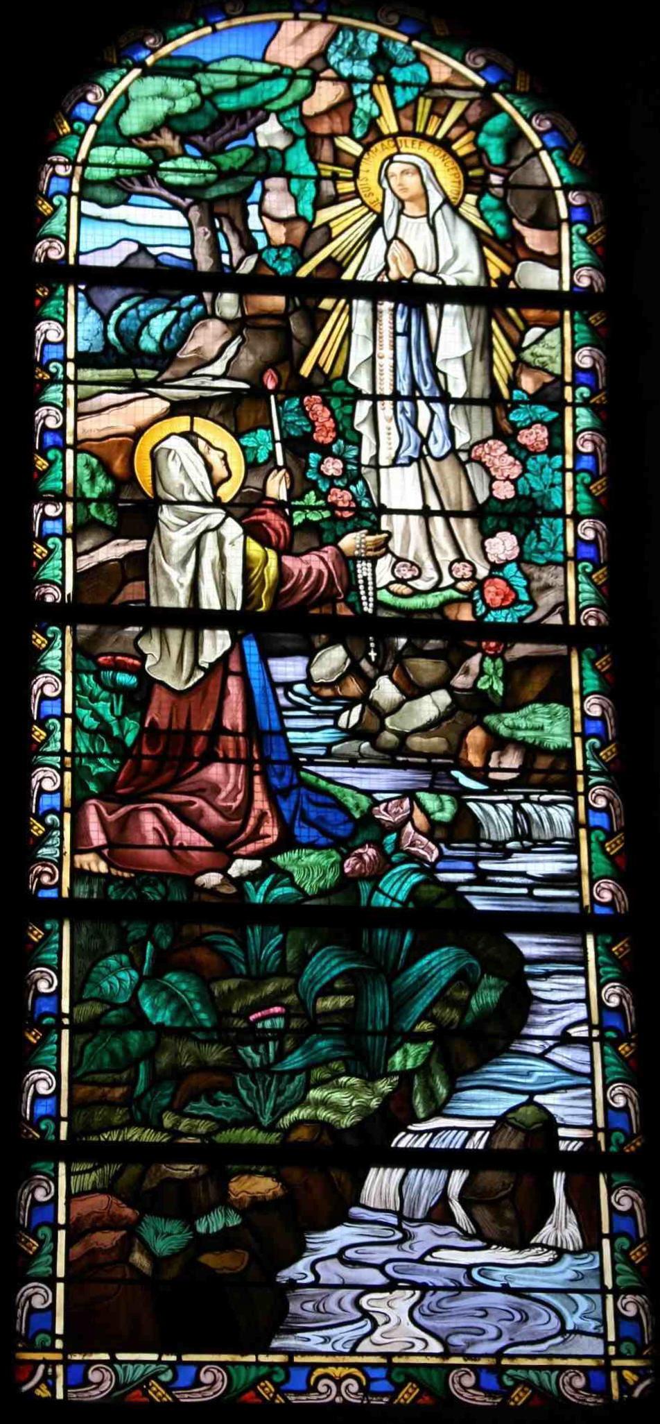 Stained glass window from Bonneval Church showing the Vision of Saint Bernadette of Lourdes